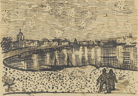 Drawing Starry Night over the Rohne ( in a letter to Eugene Boch)